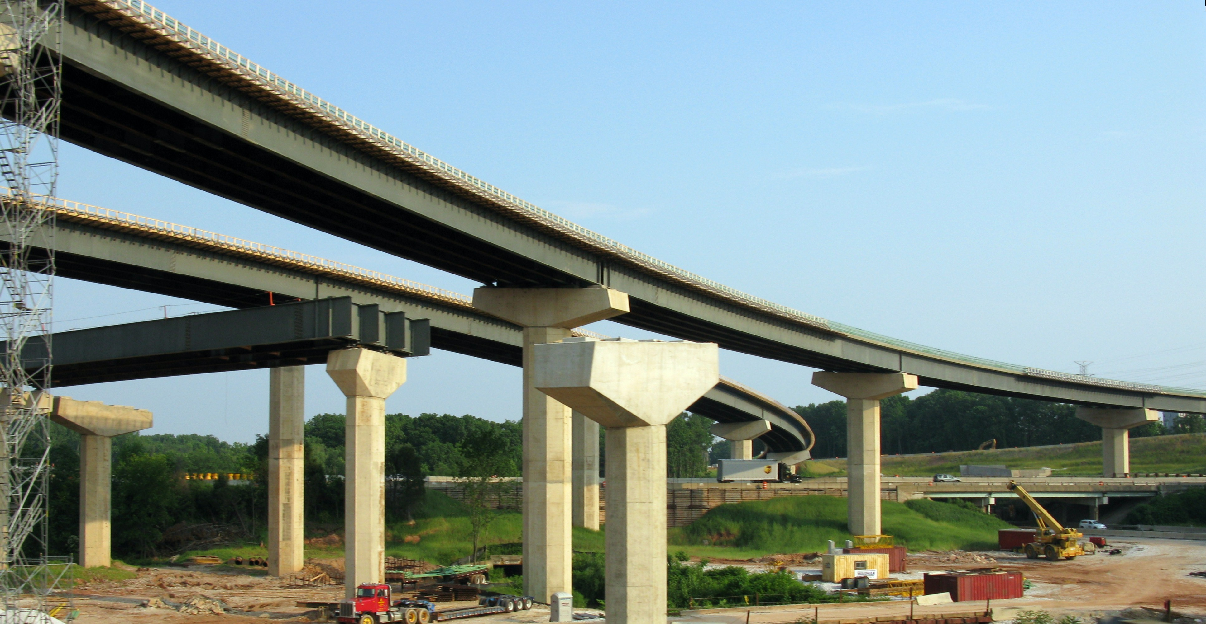 I-95 northbound at I-695 (eastern interchange), Baltimore, MD, USA. The bridge is being reconstructed from a fully grade-separated diverging diamond interchange to a more conventional stack interchange.